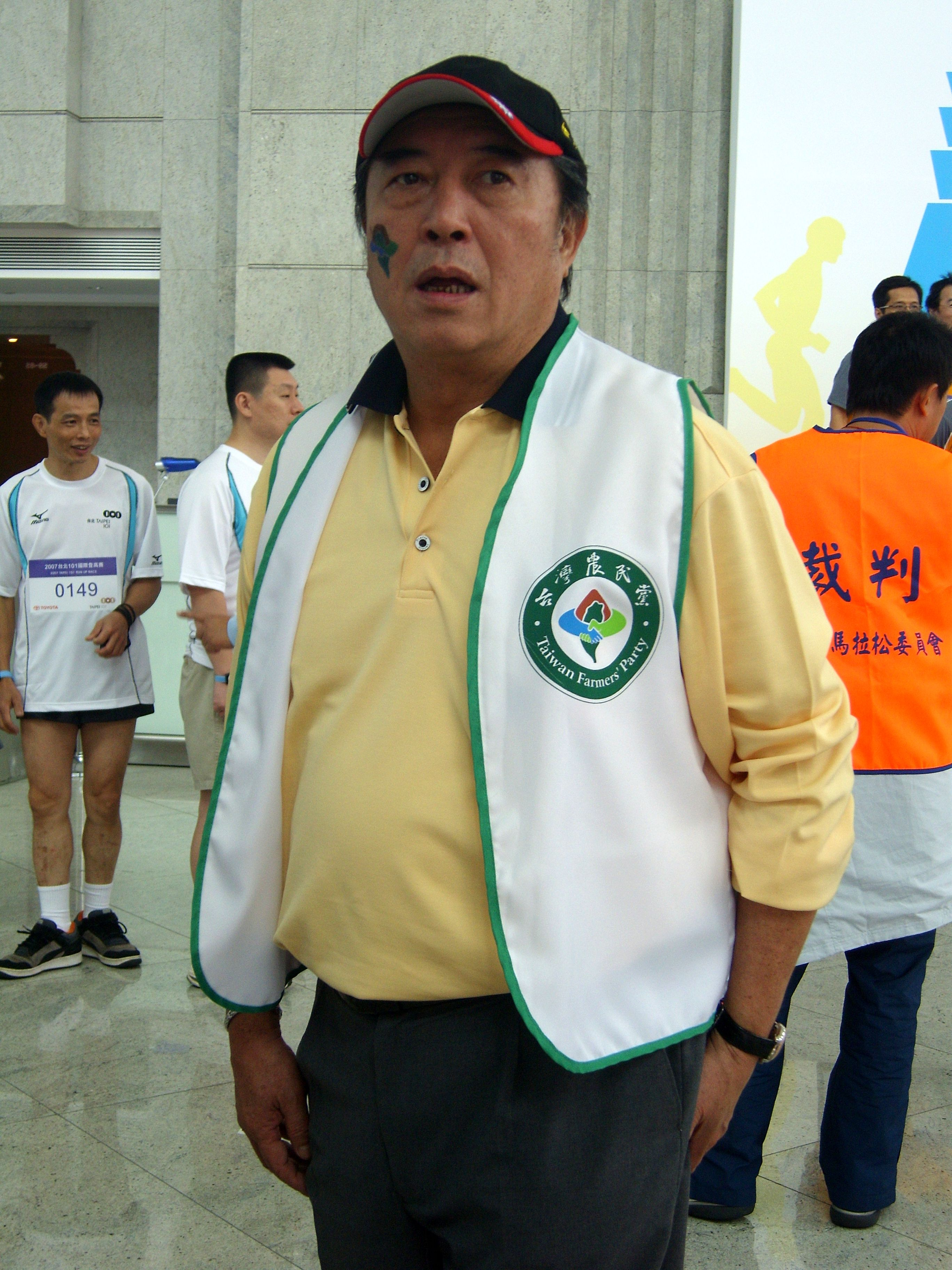 2007 Taipei 101 Run Up - Enterprise Group: Former KMT Legislator Chun-hsiung Ko led Taiwan Farmers' Party to participate this race.